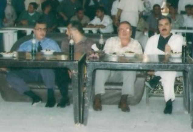 college of pharmacy Baghdad profs